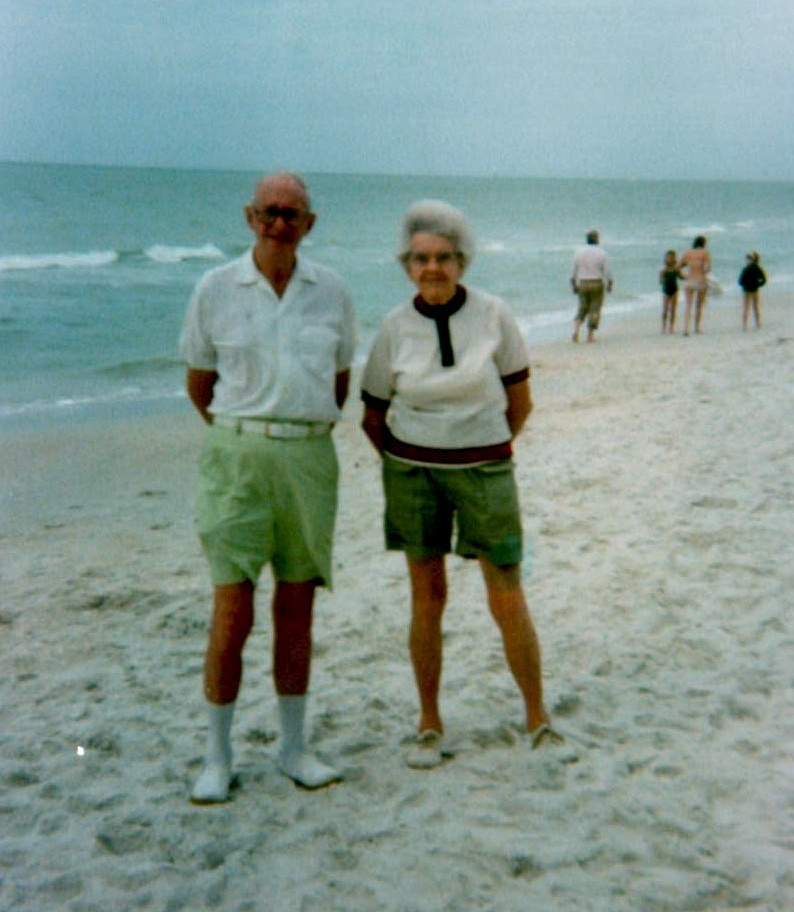 Kay Curtis in retirement, 1970's